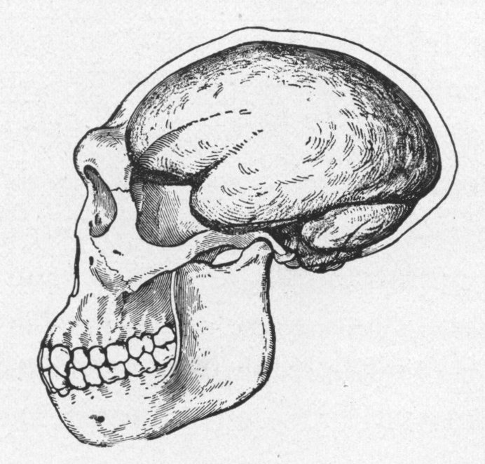 THE SKULL AND BRAIN-CASE OF PITHECANTHROPUS, THE JAVA APE-MAN, AS RESTORED. BY J. H. McGREGOR FROM THE SCANTY REMAINS The restoration shows the low, retreating forehead and the prominent eyebrow ridges.